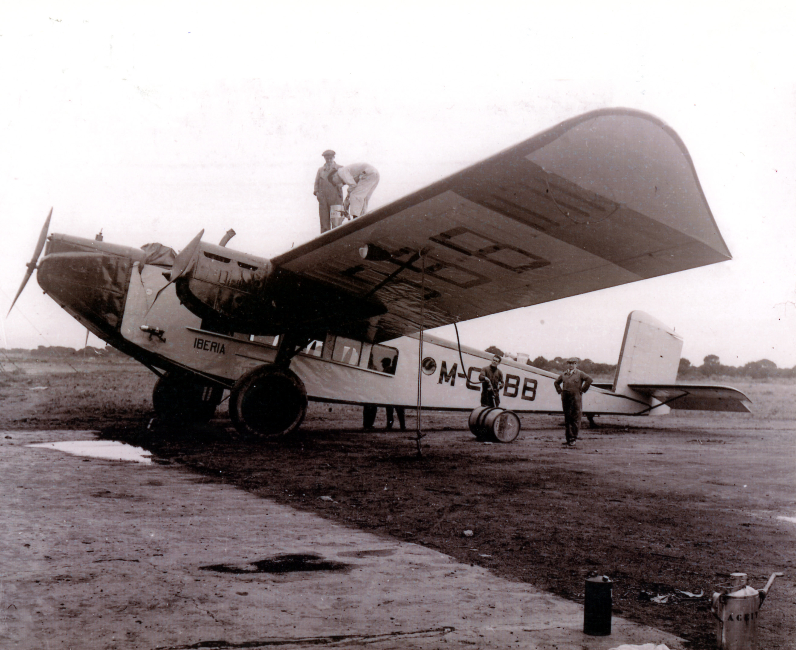 In its day, Iberia's first aircraft was quite advanced in terms of construction and flight performance. In June 1927 it set a world record by flying 2,315 kilometers (1,438 miles) in 14 hours and 23 minutes.